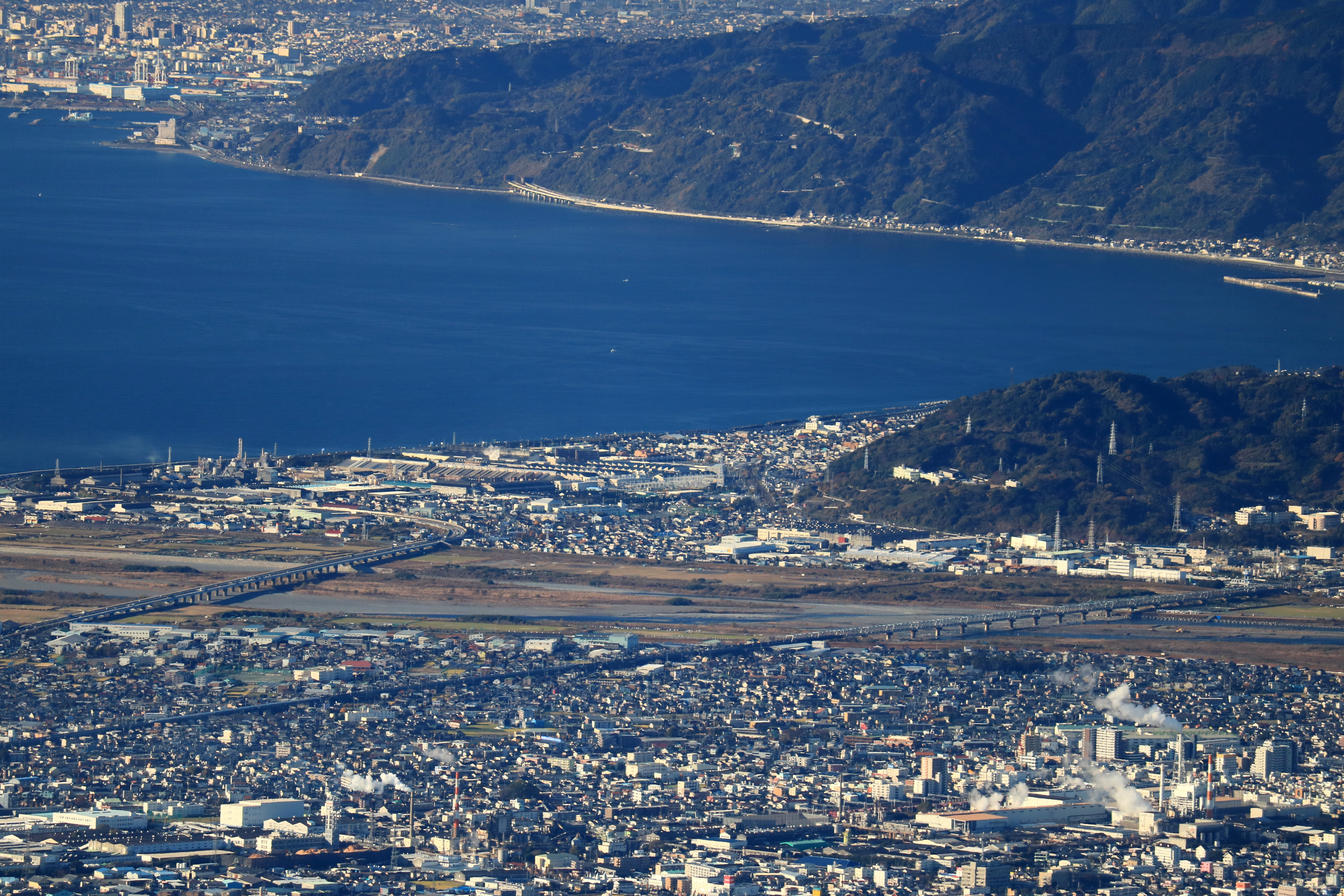 Shinfujikawa Bridge of Route 1, Fujikawa Bridge of Tokaido Shinkansen and Satta Pass over Suruga Bay seen from Ashitaka Mountains in Shizoka prefecture, Japan.